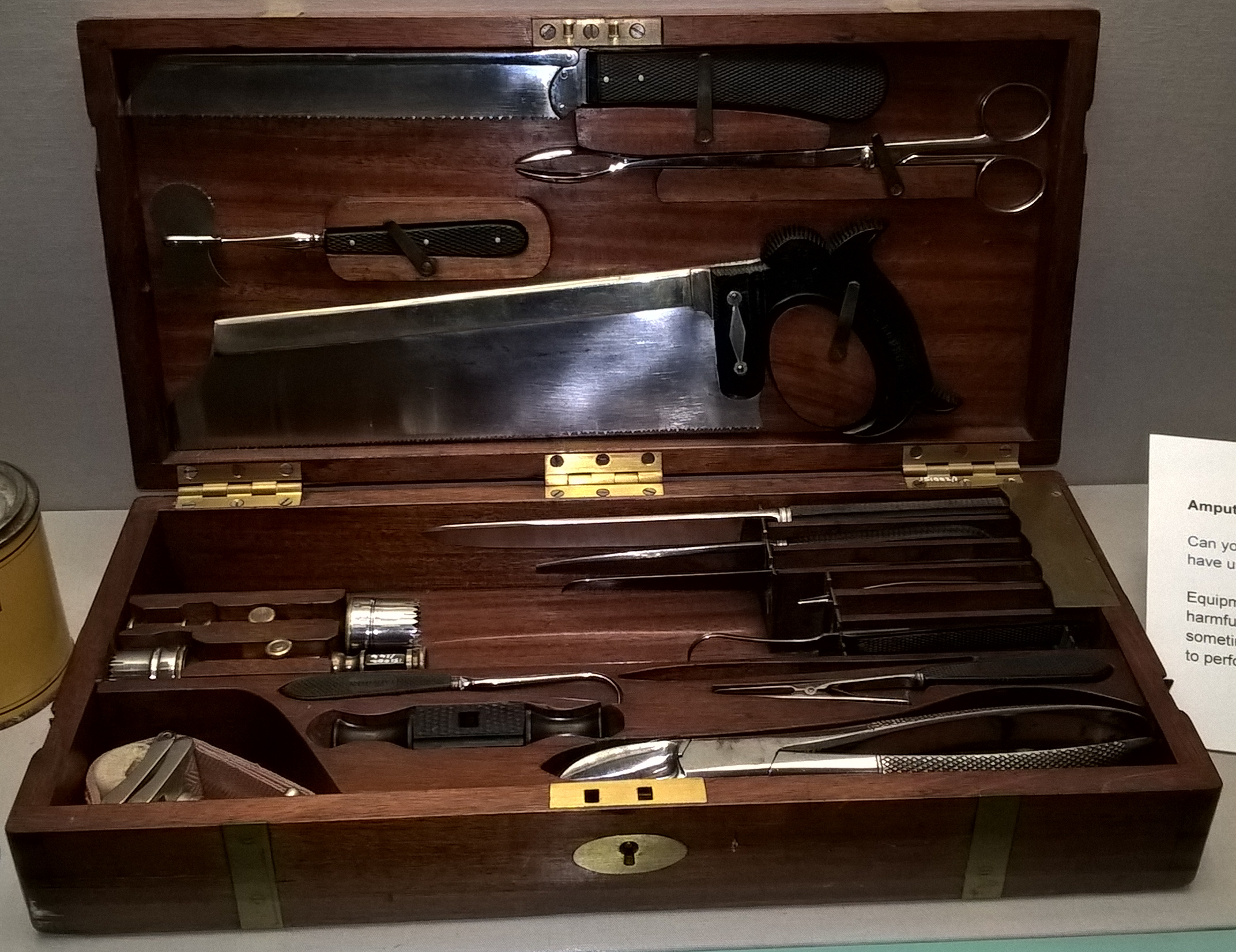 Surgical amputation set, 1870, UK. On display at the Thackray Medical Museum, Leeds.